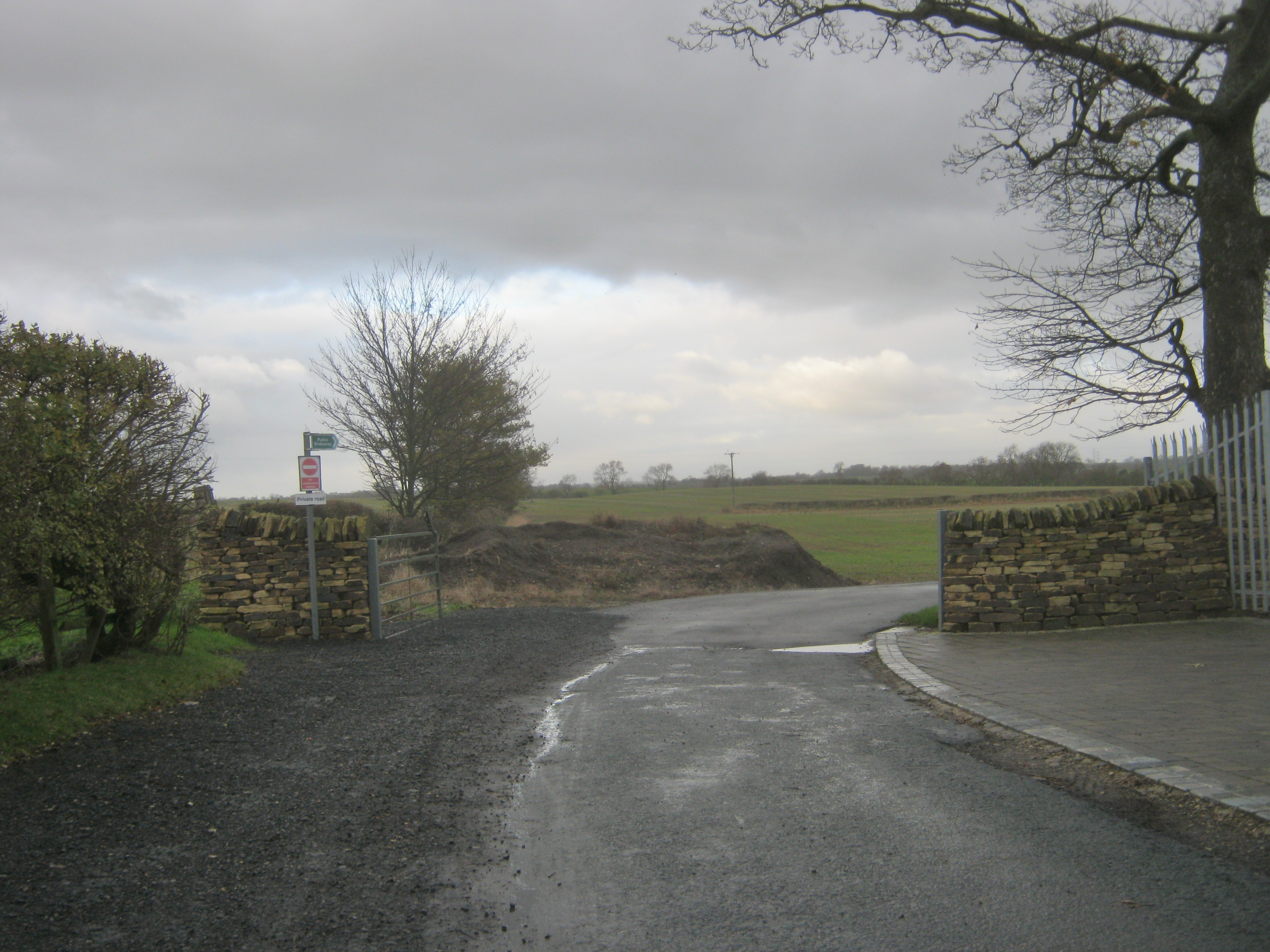 Eastern end of public road at Foxton